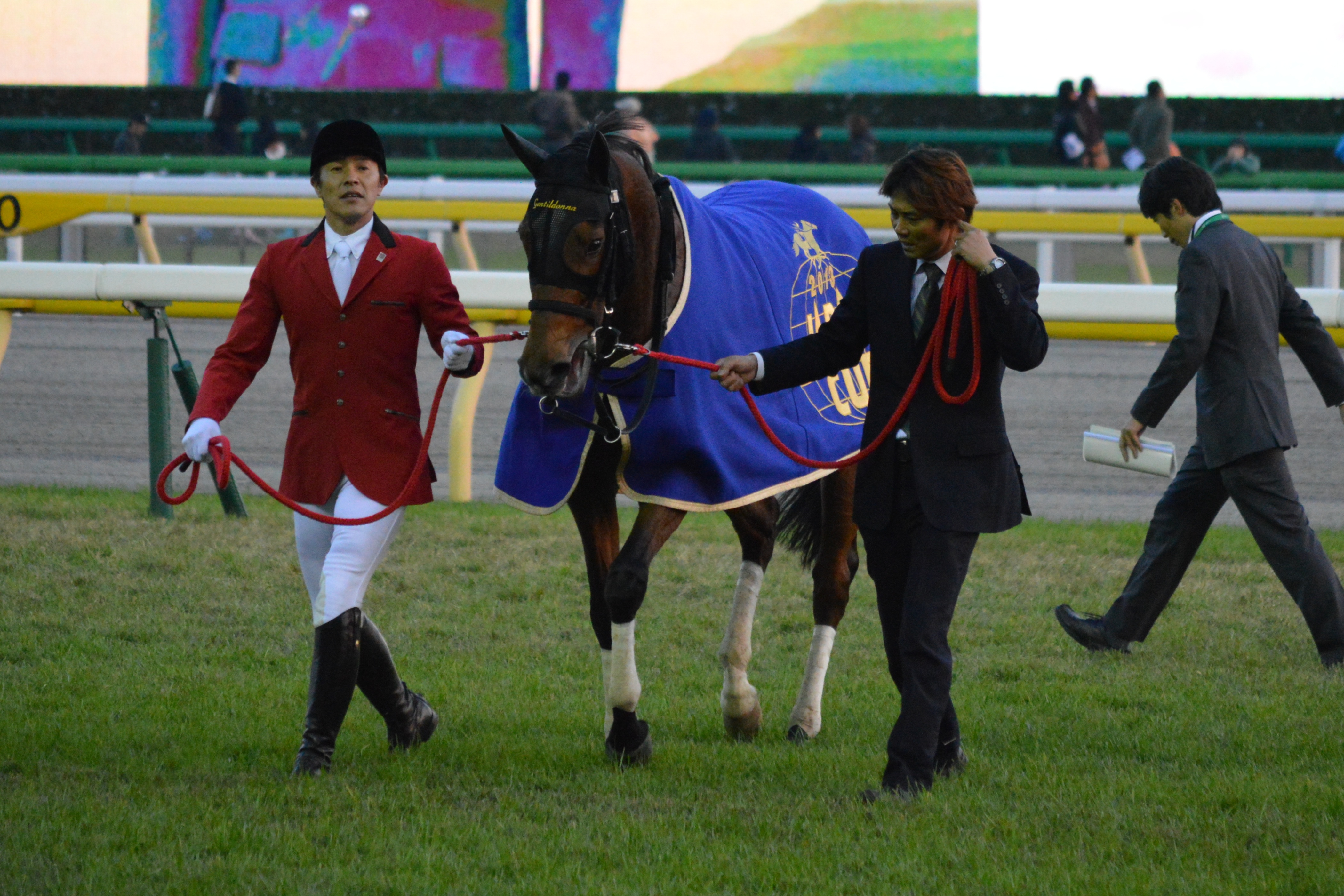 Japanese race horse Gentildonna at Tokyo racecourse. Tokyo (JPN) 24 Nov 2013Japan Cup (Grade 1) (3yo+) (Turf) 1m4f Firm RankHorse NameOddsAgeWgtTrainerJockey1stGentildonna (JPN)11/10FF48-9Sei IshizakaRyan Moore2ndDenim And Ruby (JPN)29/1F38-5Katsuhiko SumiiSuguru HamanakaOthers are omitted. (17 horses entered in a race.)